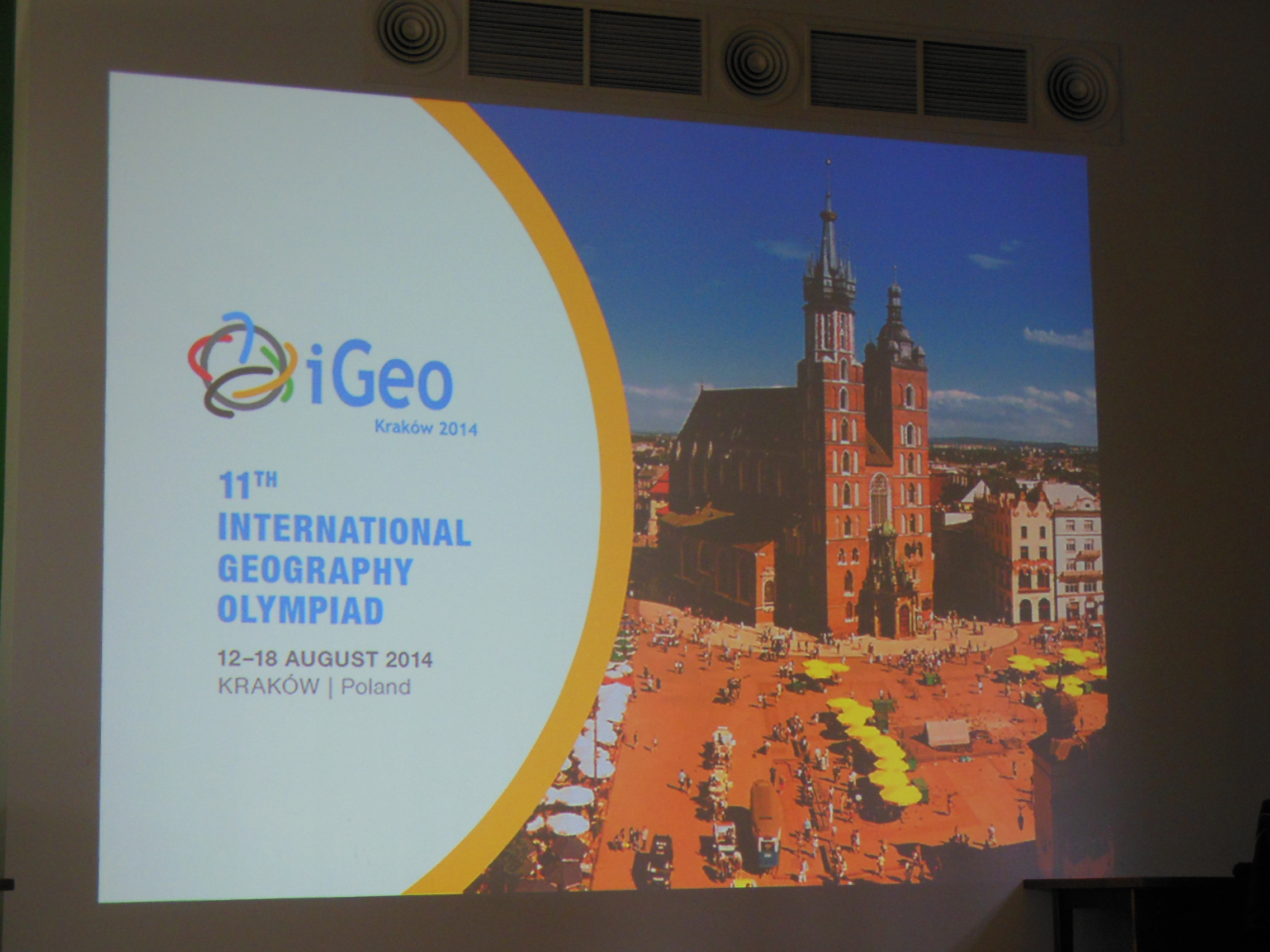 Logo of International Geography Olympiad on the presentation during 11th iGeo in Krakow, Poland. Subject to disclaimers. Subject to disclaimers.